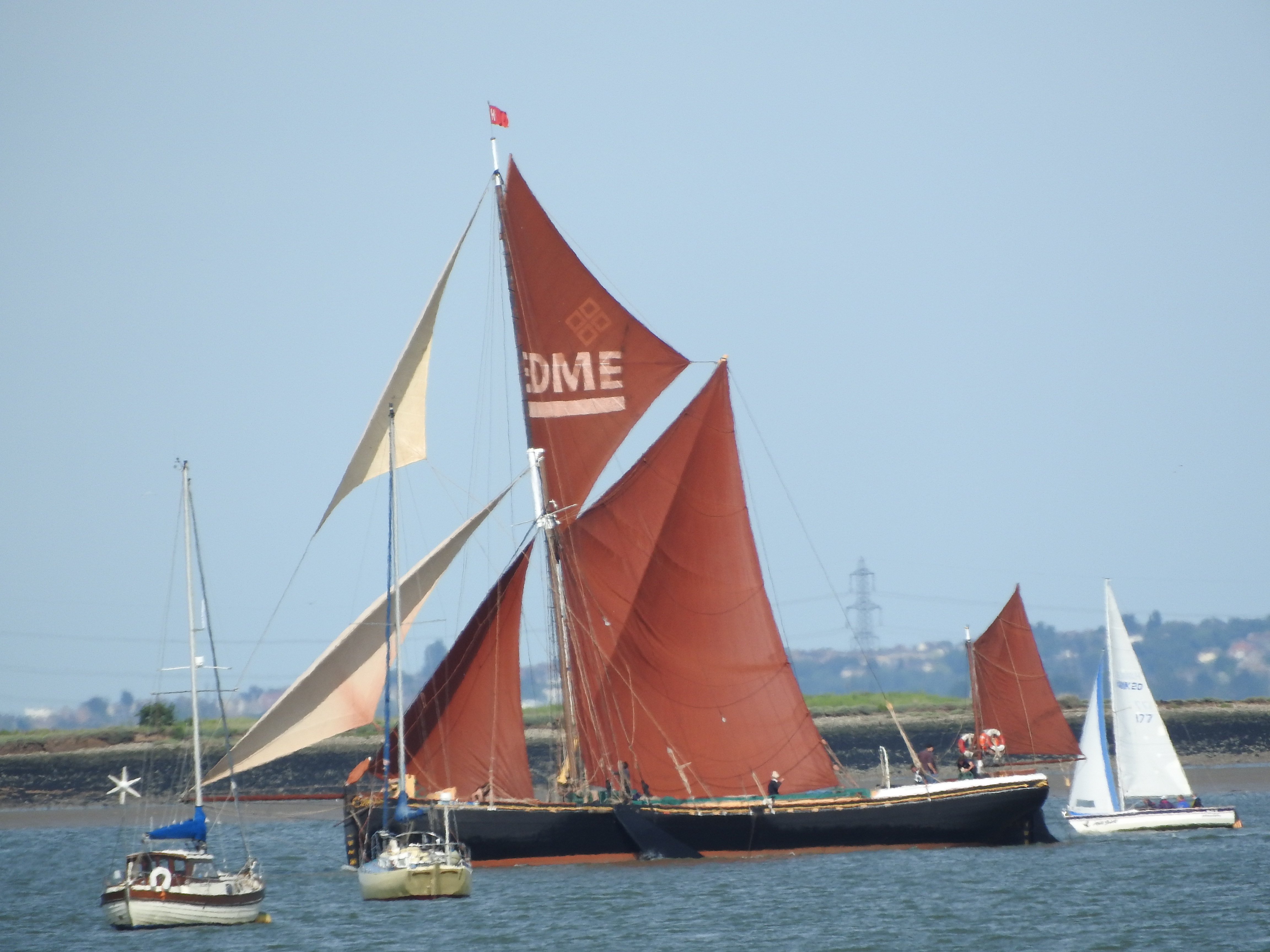 SB Edme competing in the 109th Medway Barge Sailing match, viewed from Gillingham Strand.